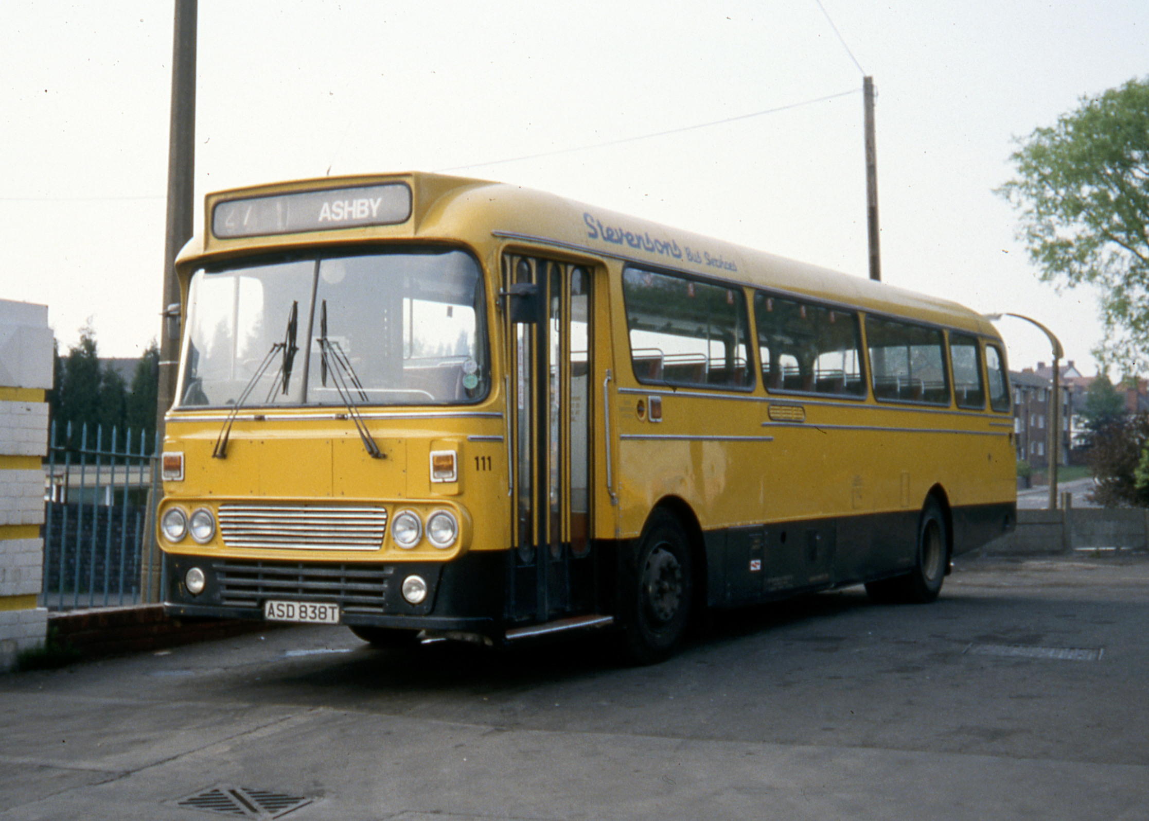 Stevensons of Uttoxeter Seddon Pennine with Alexander Y Type bodywork, 111 (ASD 838T), in the depot yard at Swadlincote in summer 1990.